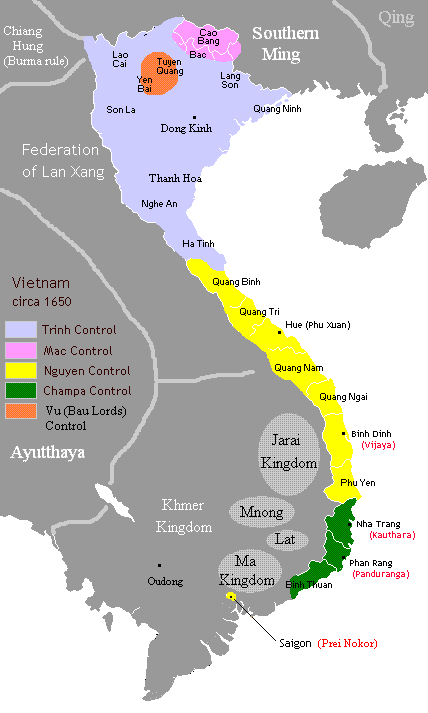 More accurate borders in 1650: Trinh Nguyen border at Giang river. Bau Lords still hold out at Yen Bai and Tuyen Quang provinces. Champa as rump states of Hoa Anh and Panduranga still hold out at today's Khanh Hoa province.